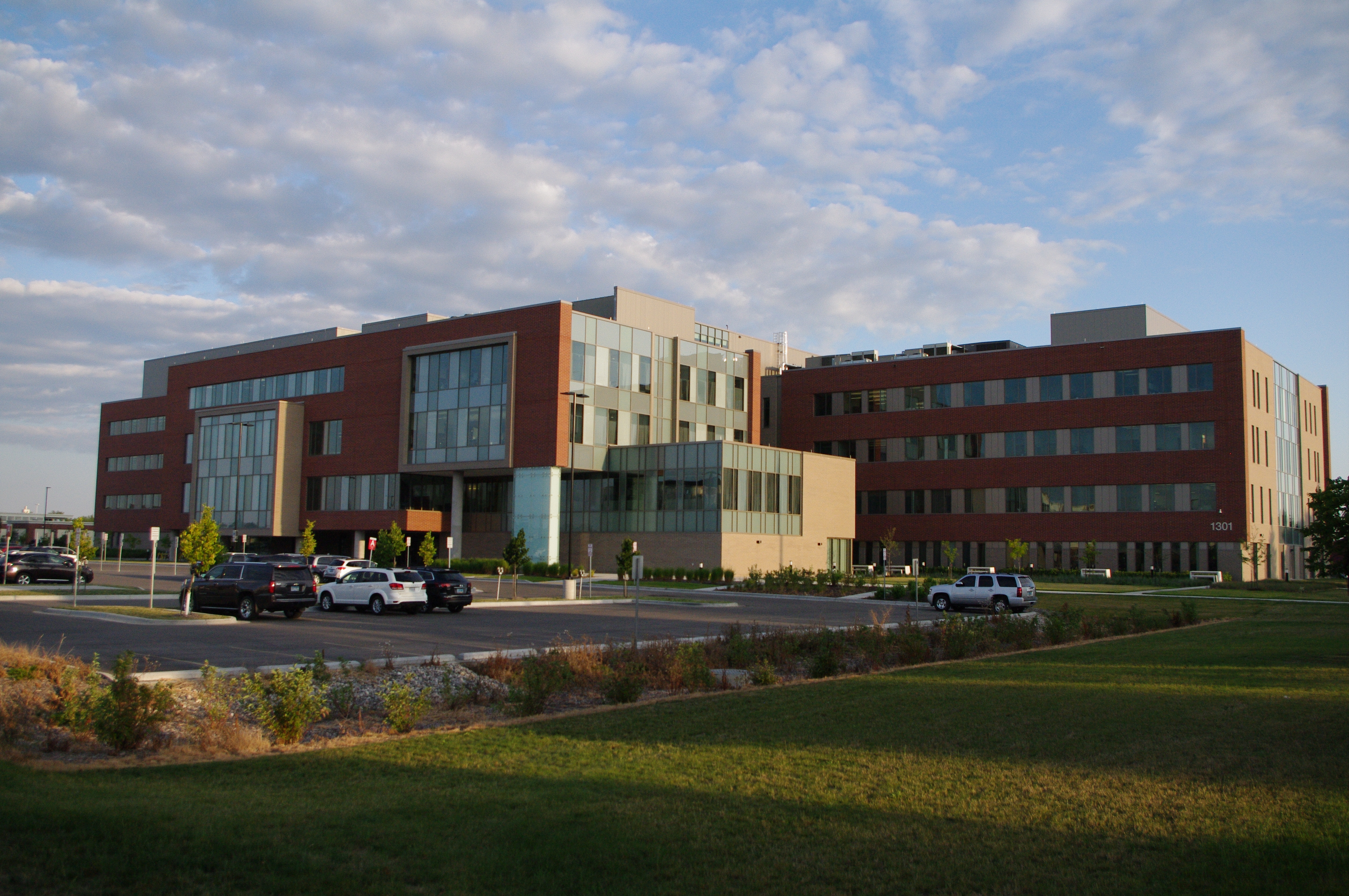 The new building of the University of North Dakota School of Medicine, completed in the summer of 2016.